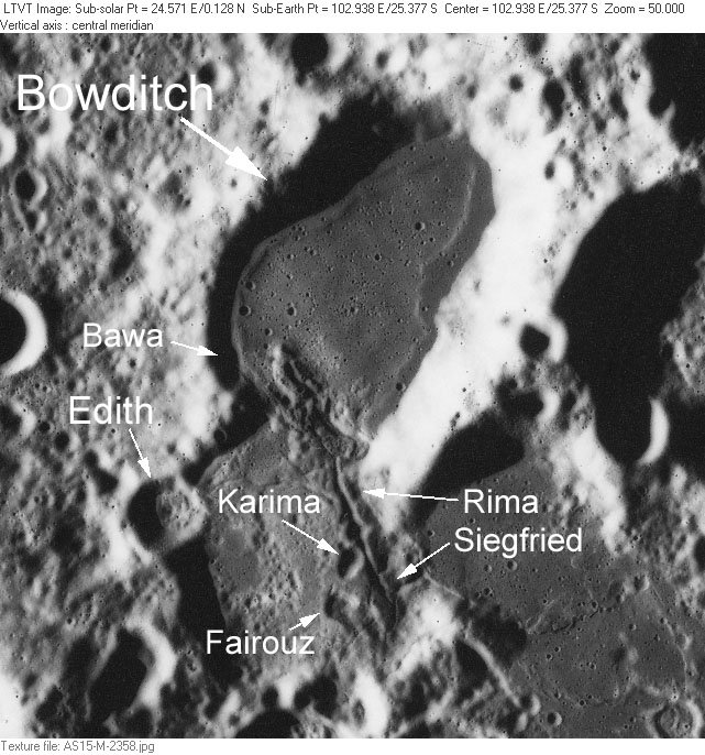 AS15-M-2358 The area shown here is on the northwest shore of Lacus Solitudinis, between the craters Titius and Perel'man. In addition to the the dark-floored Bowditch, the labels indicate several IAU-approved minor feature names: Edith, Bawa, Karima, Fairouz and Rima Siegfried. Bawa is a pit along the west wall of Bowditch. It is completely in shadow in this view.